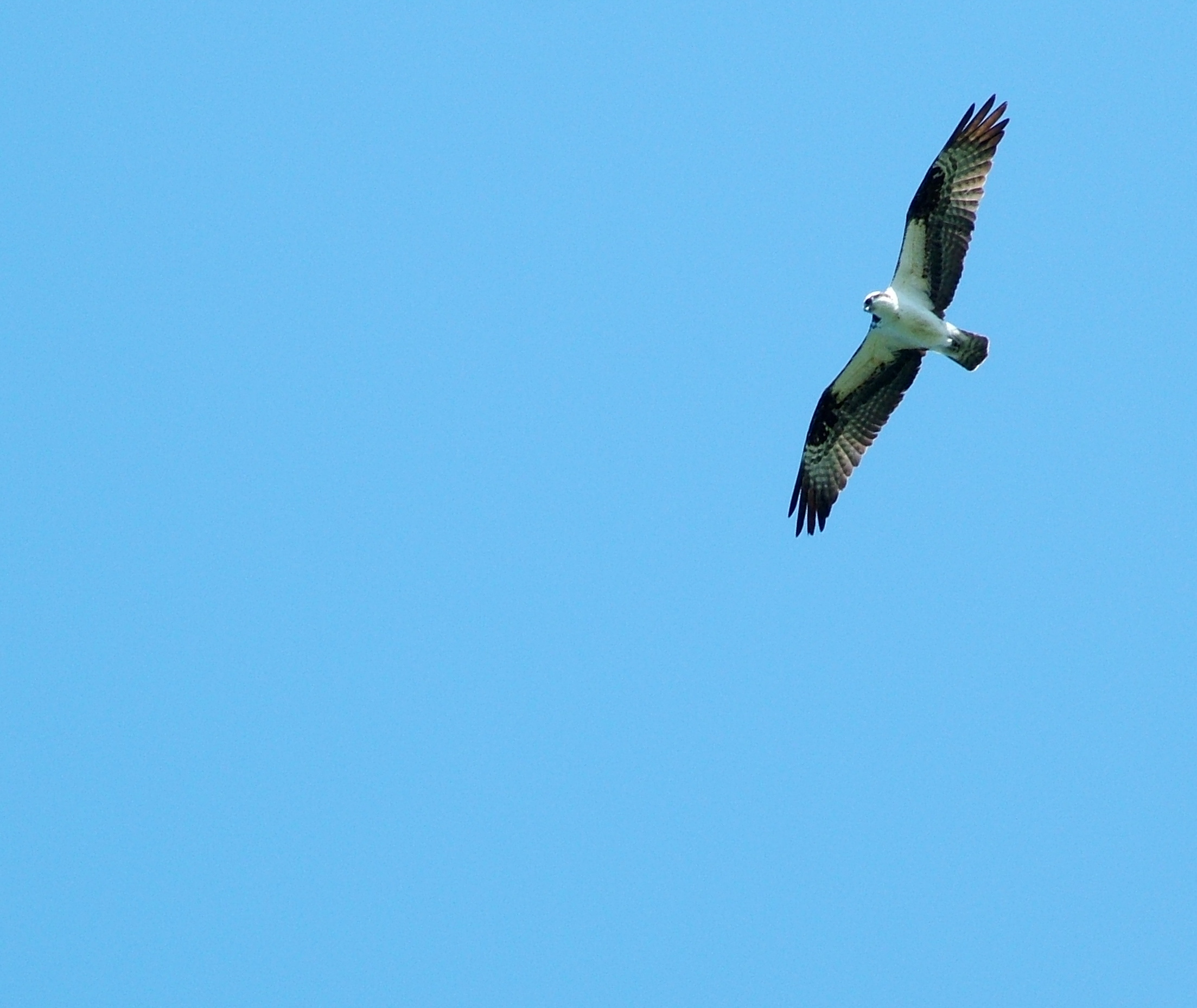 Picture of flying osprey taken by Ashley Pond V at Green Lake in Seattle, WA, USA, spring 2006.